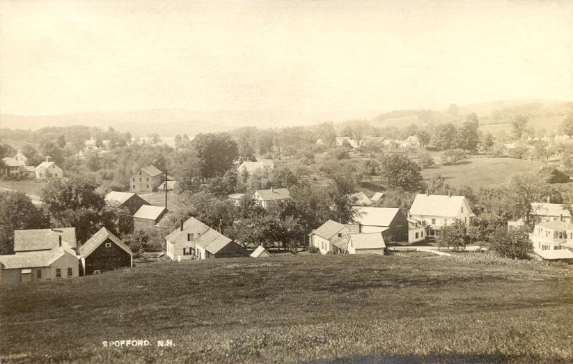 Bird's-eye view of Spofford, New Hampshire. Spofford is a village within the town of Chesterfield.